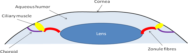 Conceptual illustration of the structure of the lens.